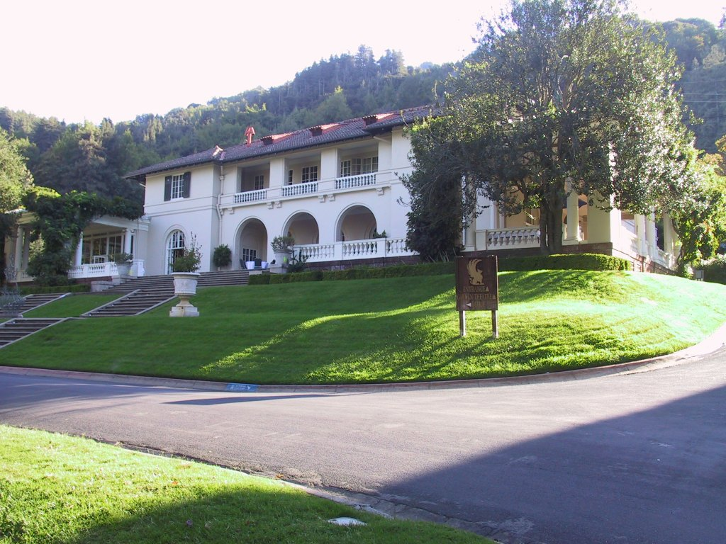 Villa Montalvo, in Saratoga, California. 1914 Mediterranean Revival Style residence of James Duval Phelan. On the National Register of Historic Places.